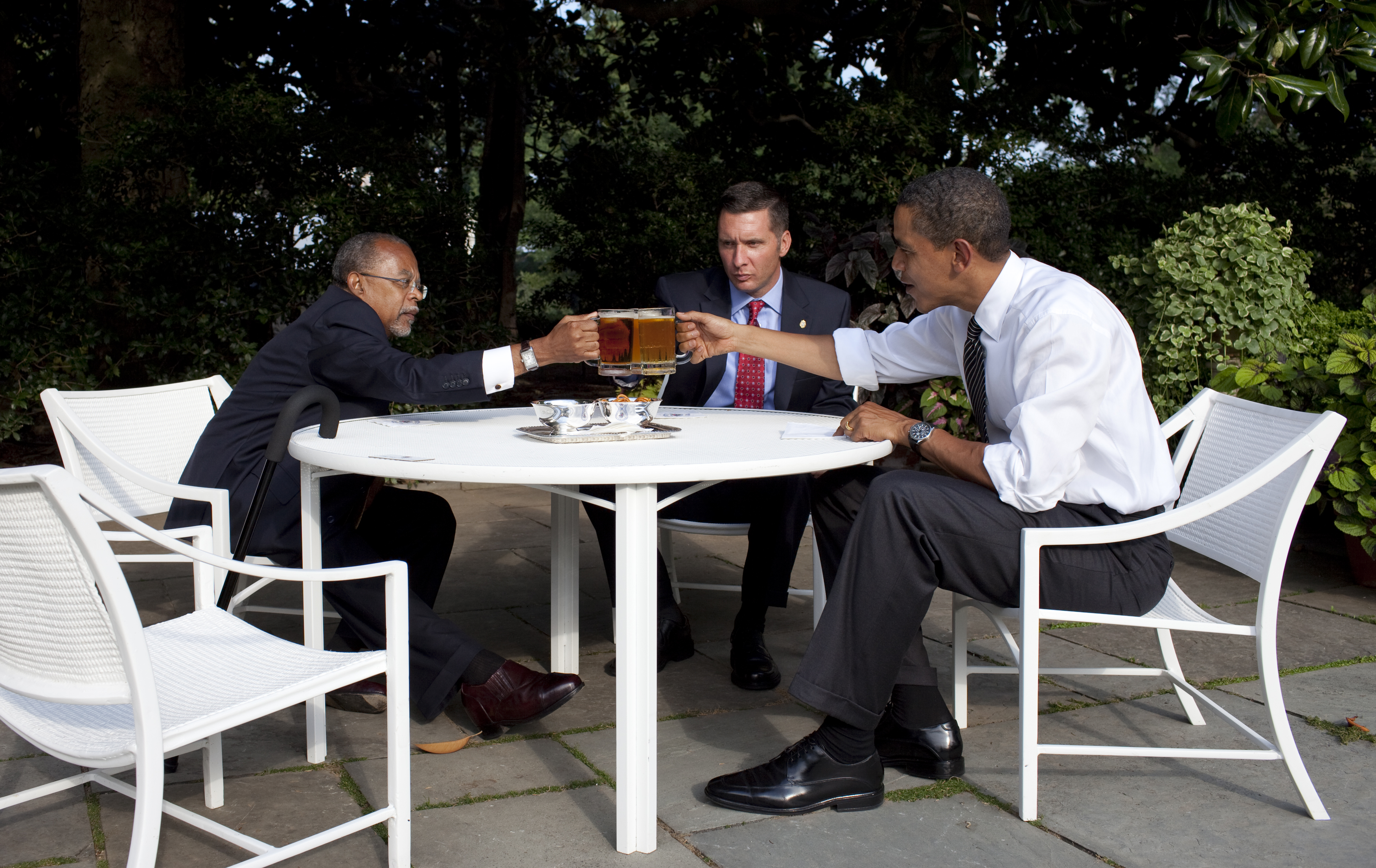 President Barack Obama, Professor Henry Louis Gates Jr. and Sergeant James Crowley toast at the start of their meeting in the White House Rose Garden, outside the Oval Office.